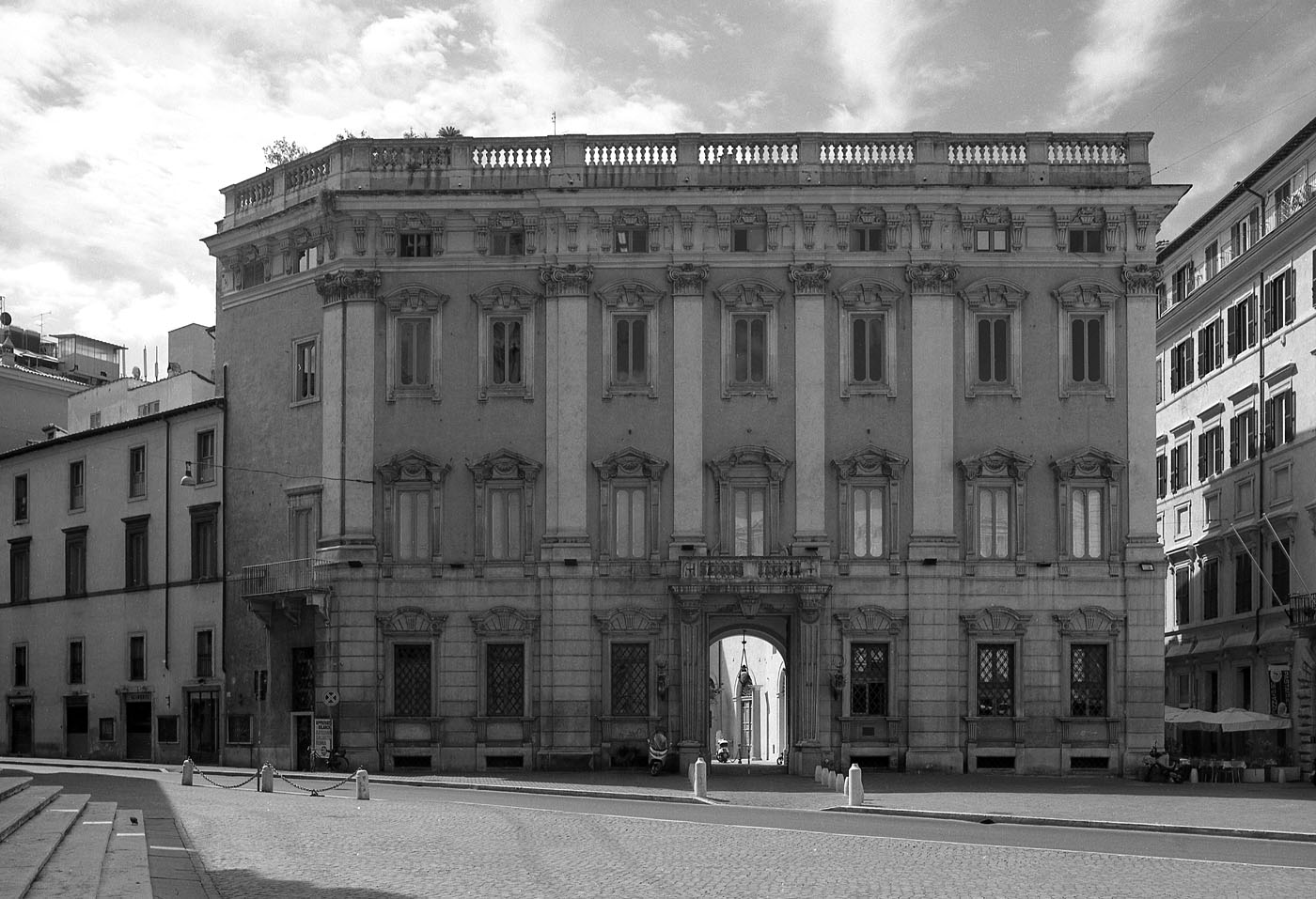 Palazzo Cenci-Bolognetti, Rome, 2009